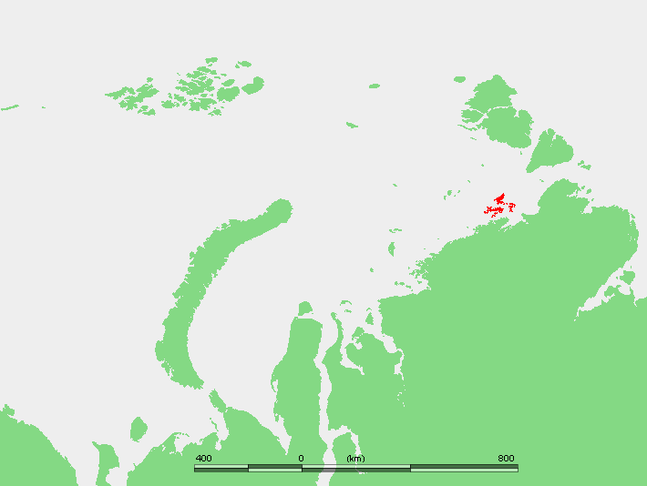 Nordensjelda Islands